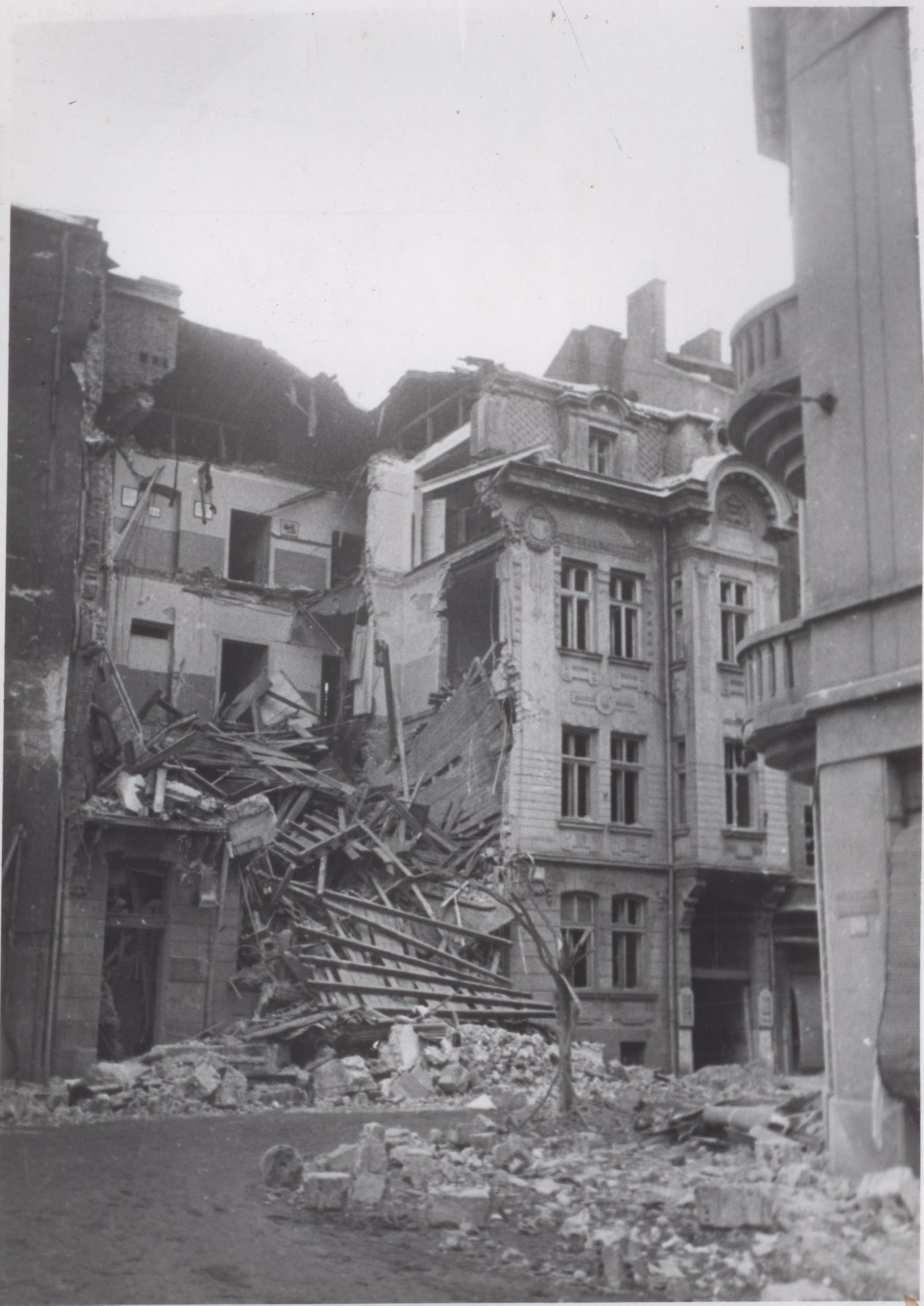 Sofia Bombings 1944: The Italian School